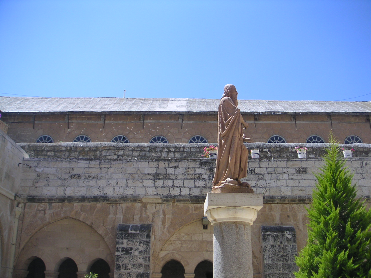 Photo: Soman